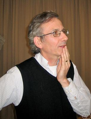 Photo of Simon Donaldson